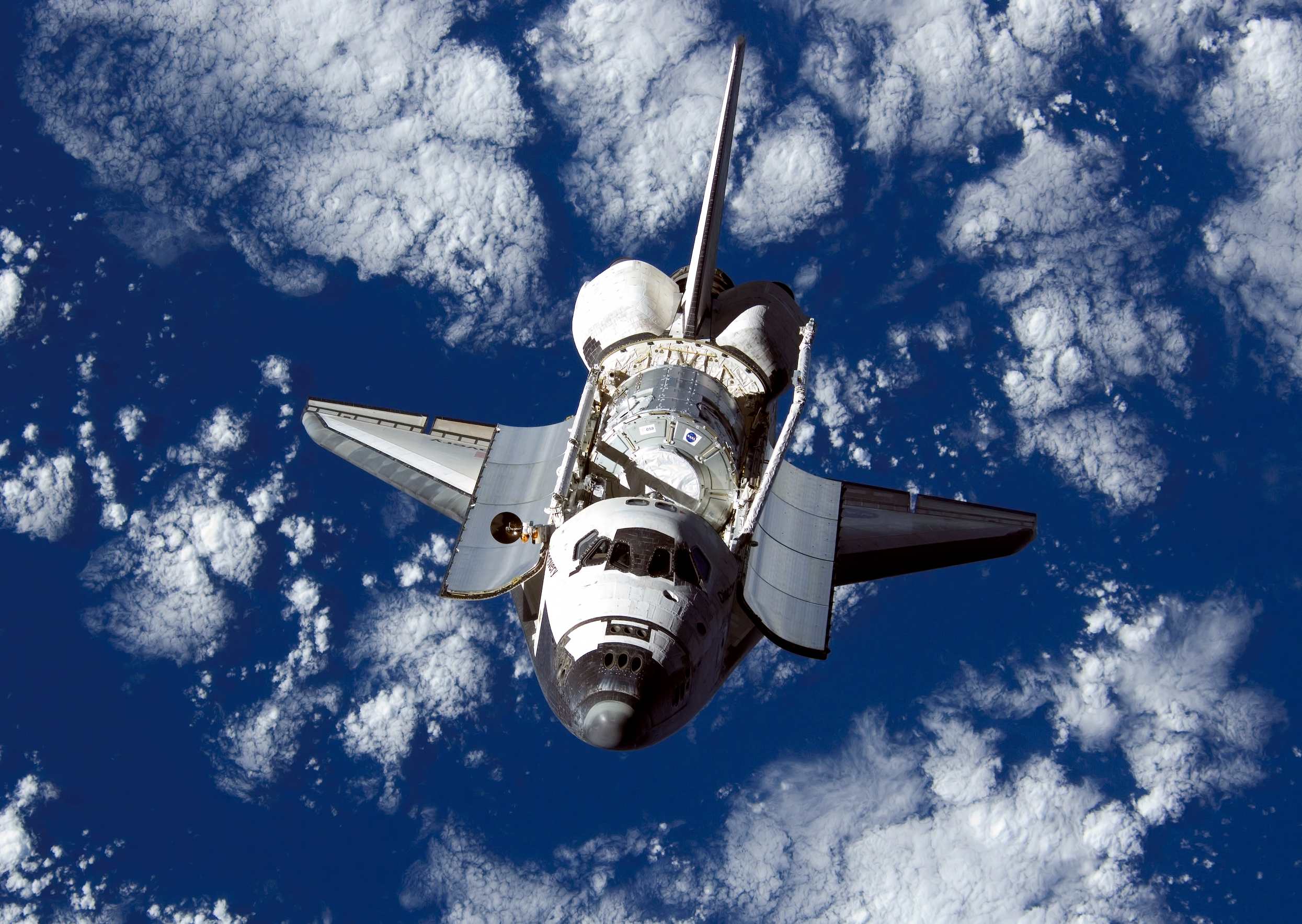 ISS016-E-006331 (25 Oct. 2007) --- Backdropped by a blue and white Earth, Space Shuttle Discovery approaches the International Space Station during STS-120 rendezvous and docking operations. Docking occurred at 7:40 a.m. (CDT) on Oct. 25, 2007. The Harmony node is visible in Discovery's cargo bay.